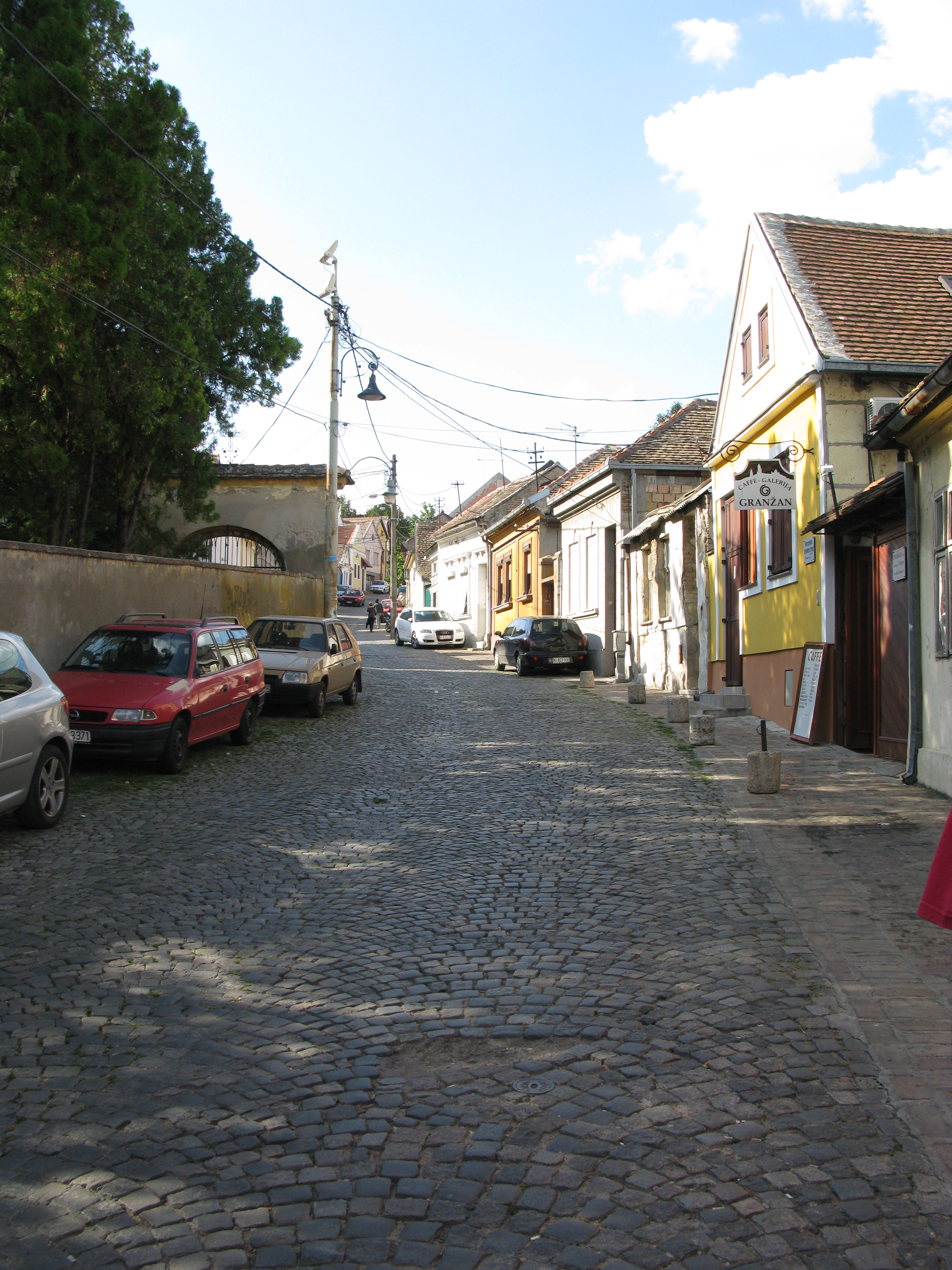 Street Sinđelićeva in Gardoš, Zemun, Belgrad, Serbia